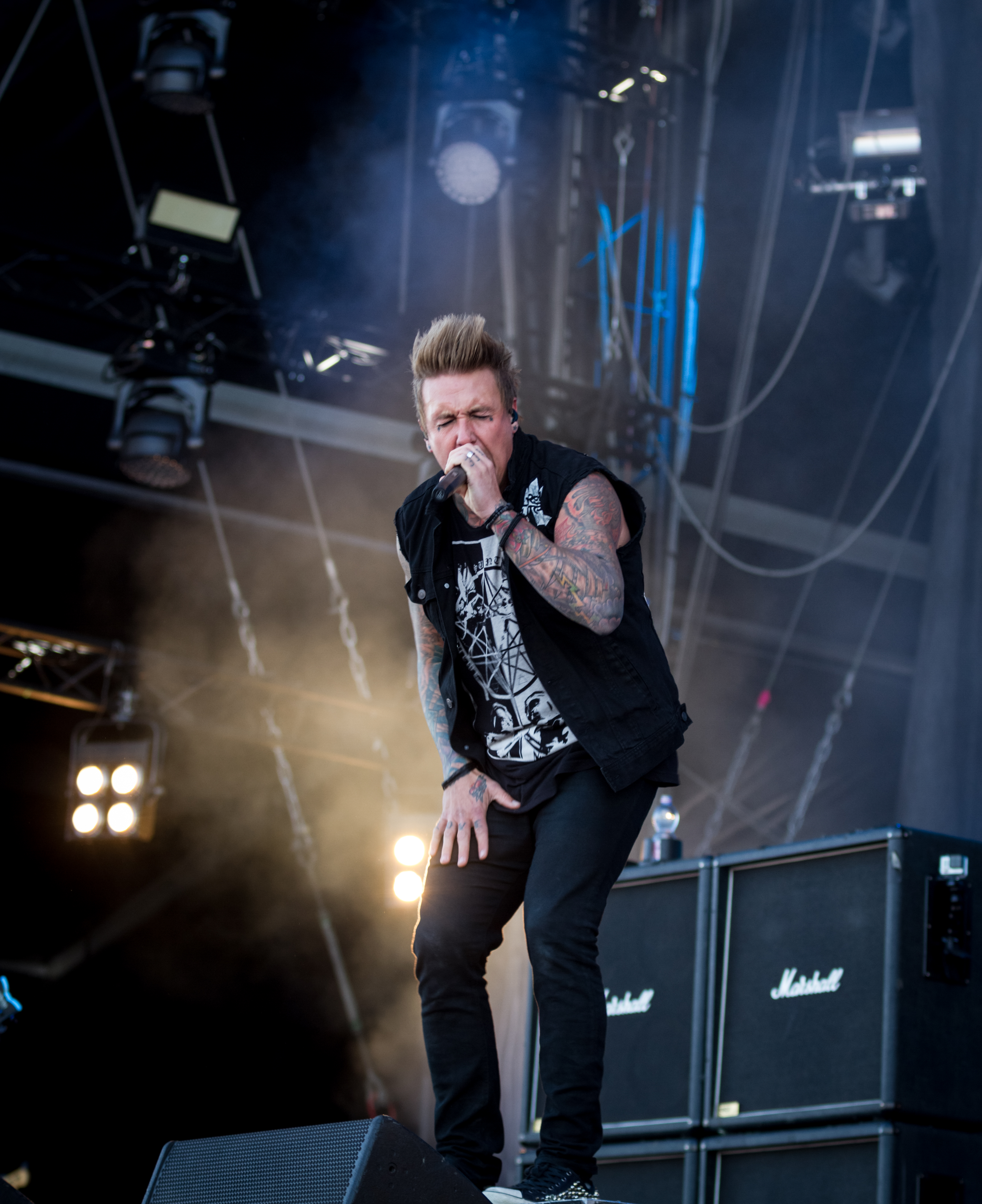 Papa Roach - Rock am Ring 2015